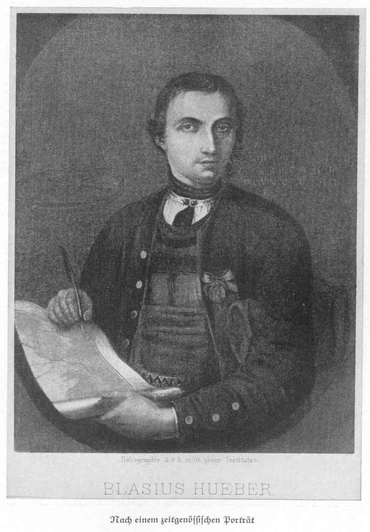 Scan from a historic book